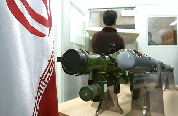 Iranian Misagh-2 MANPADS launcher (left) and missile (right)